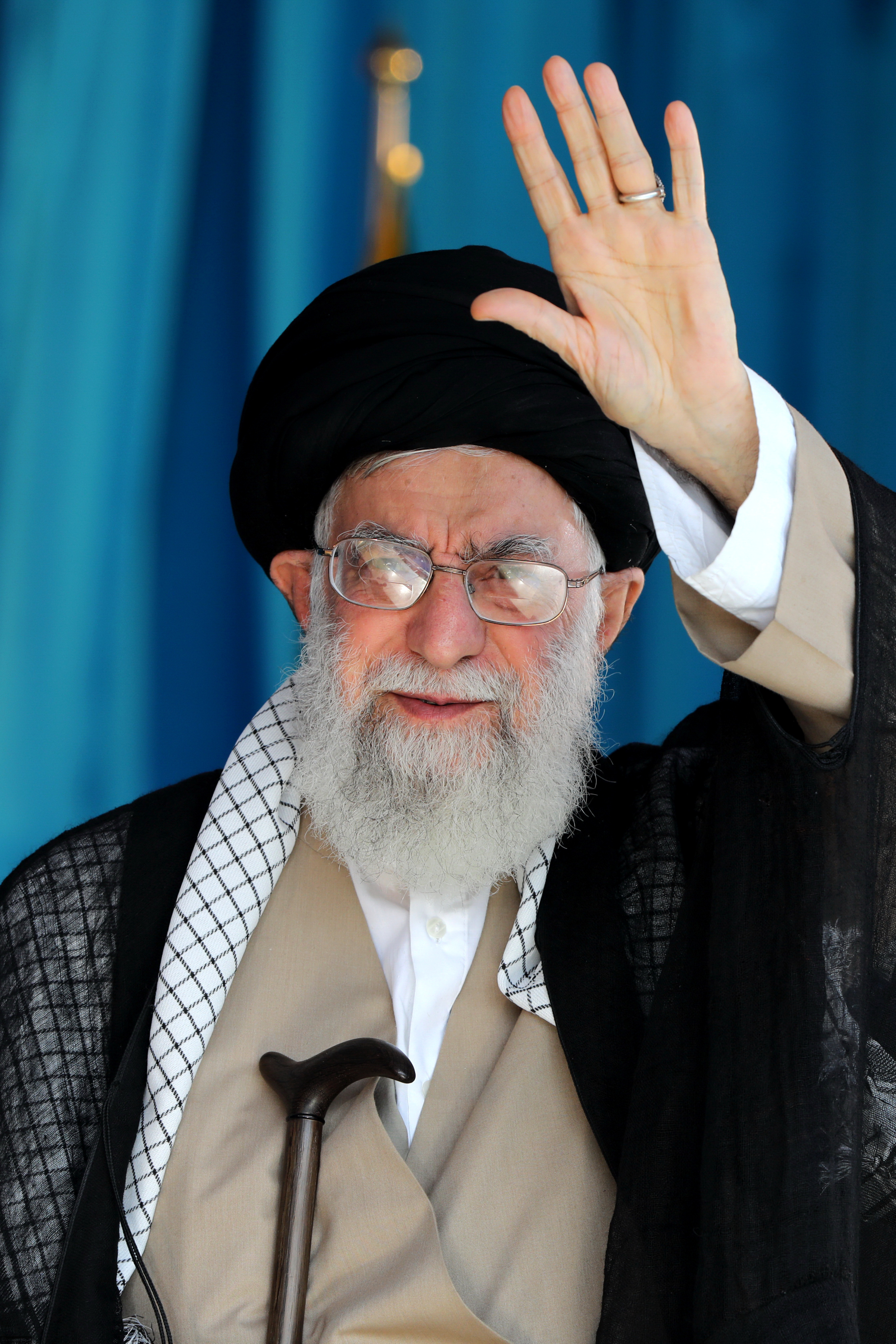 Great Conference of Basij members at Azadi stadium, 4 October 2018